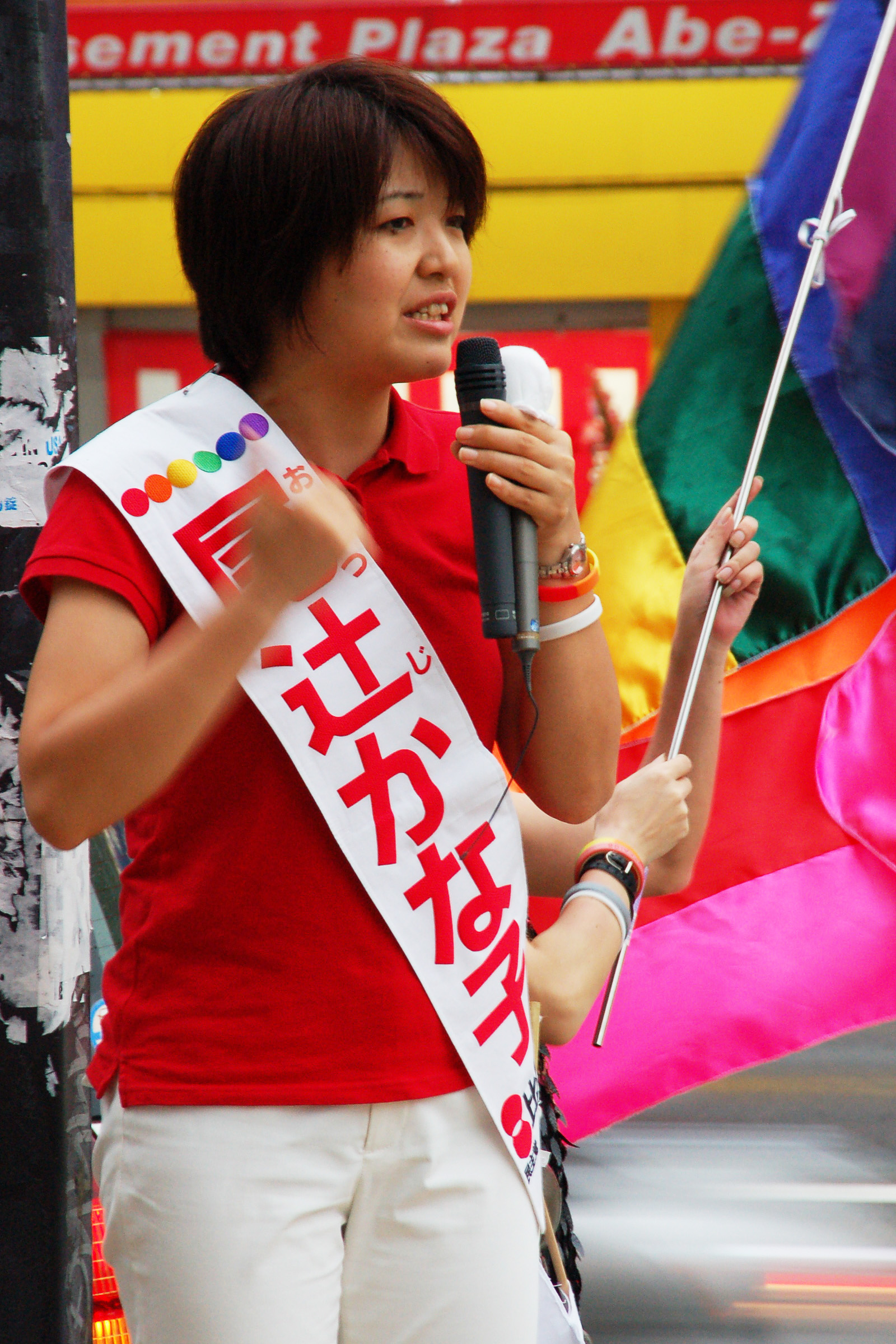 July 20, 2007 at 17:55 JST, Umedaelection*OK, Osaka